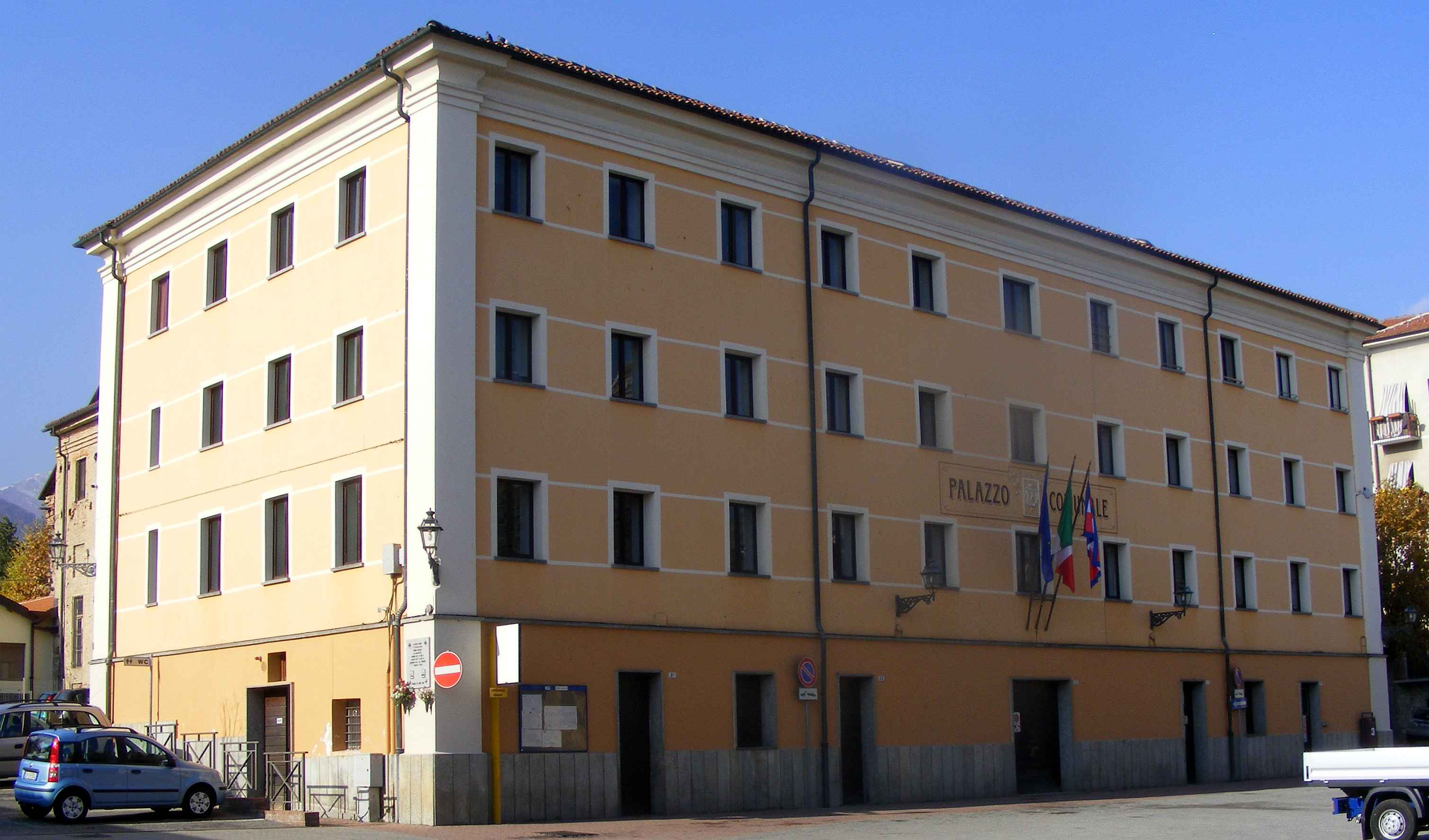 Cumiana (TO, Italy): town hall